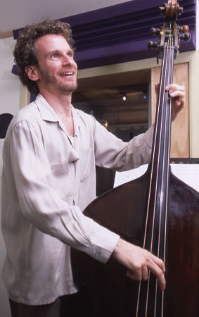 Larry Grenadier